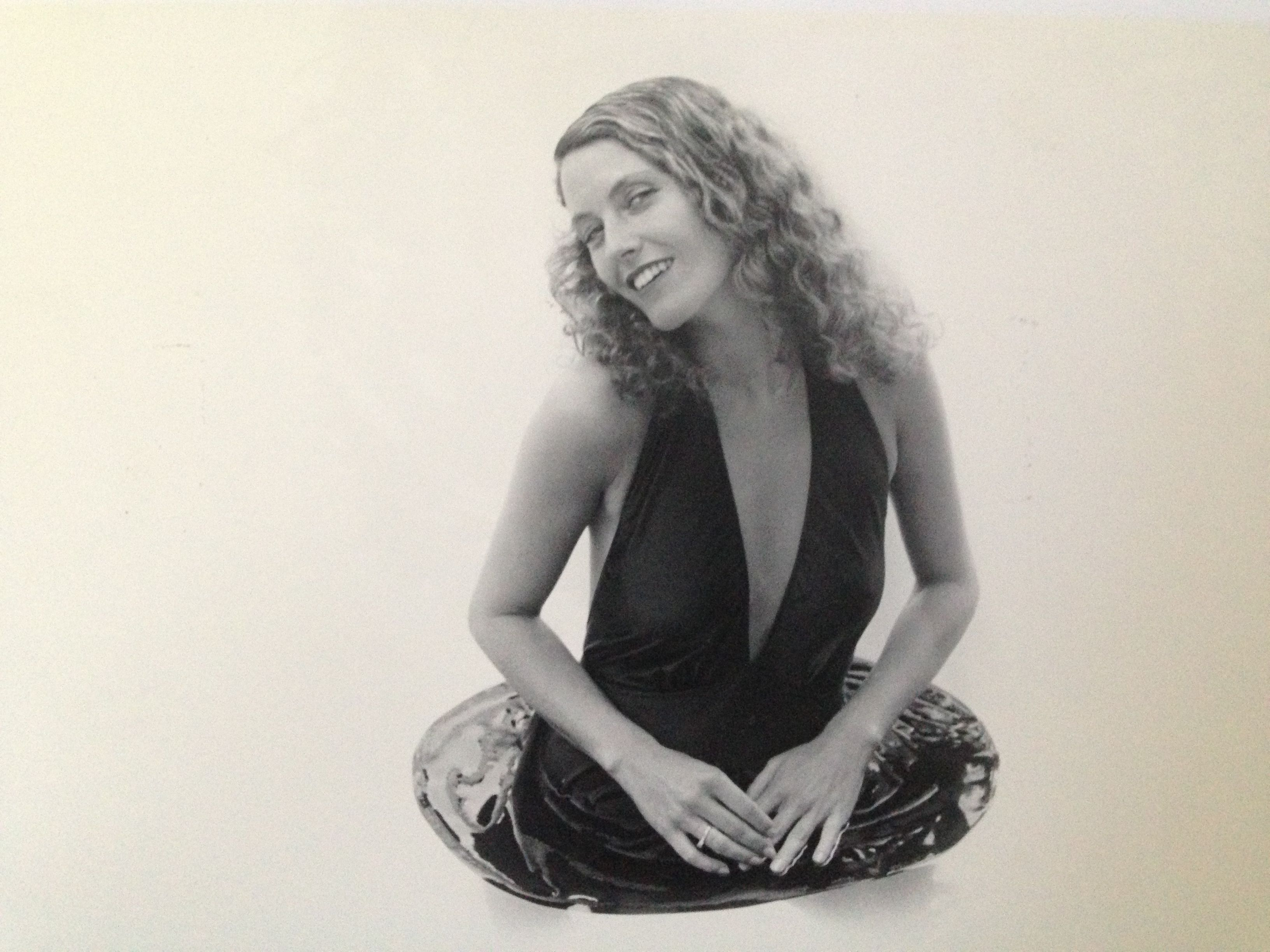 Pilar Munoz Fontaine, widow of Pierluigi Samaritani, photographed by the famed designer.